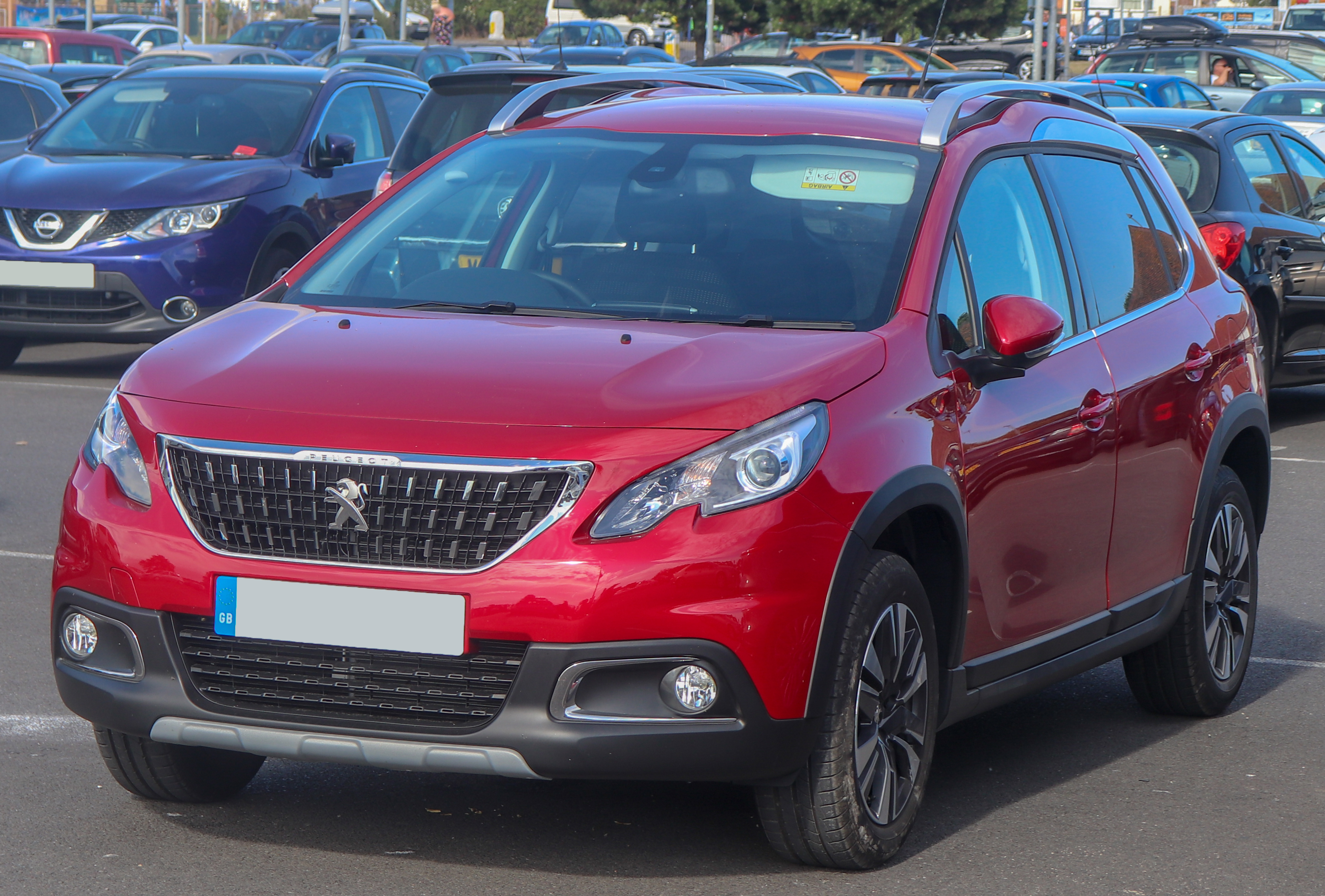 2018 Peugeot 2008 Allure 1.2 Taken in Weymouth, Dorset